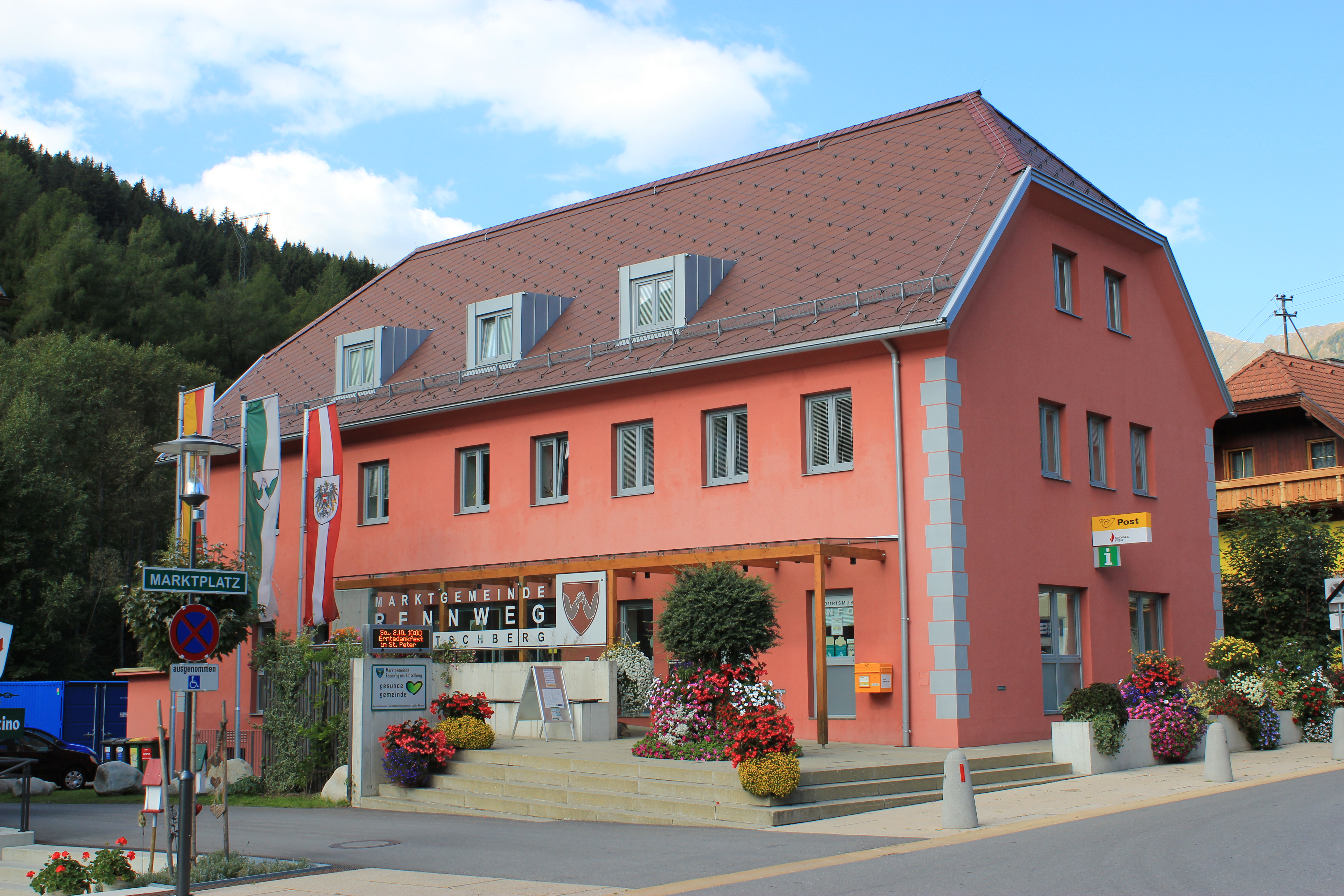 Municipal office of the community of Rennweg am Katschberg